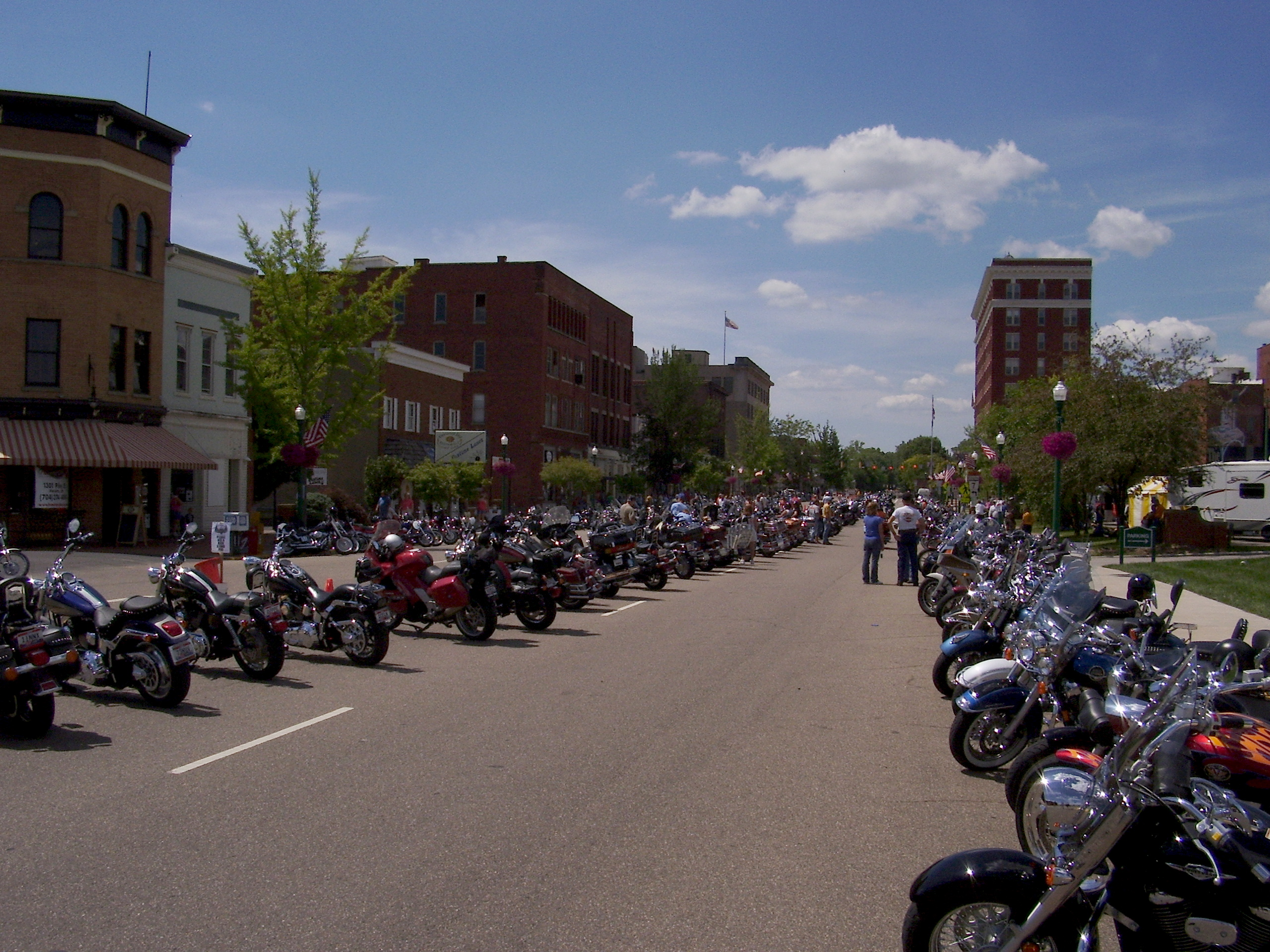 Motorcycles at 2009 Marietta All Bike Rally and Ride for the Red.